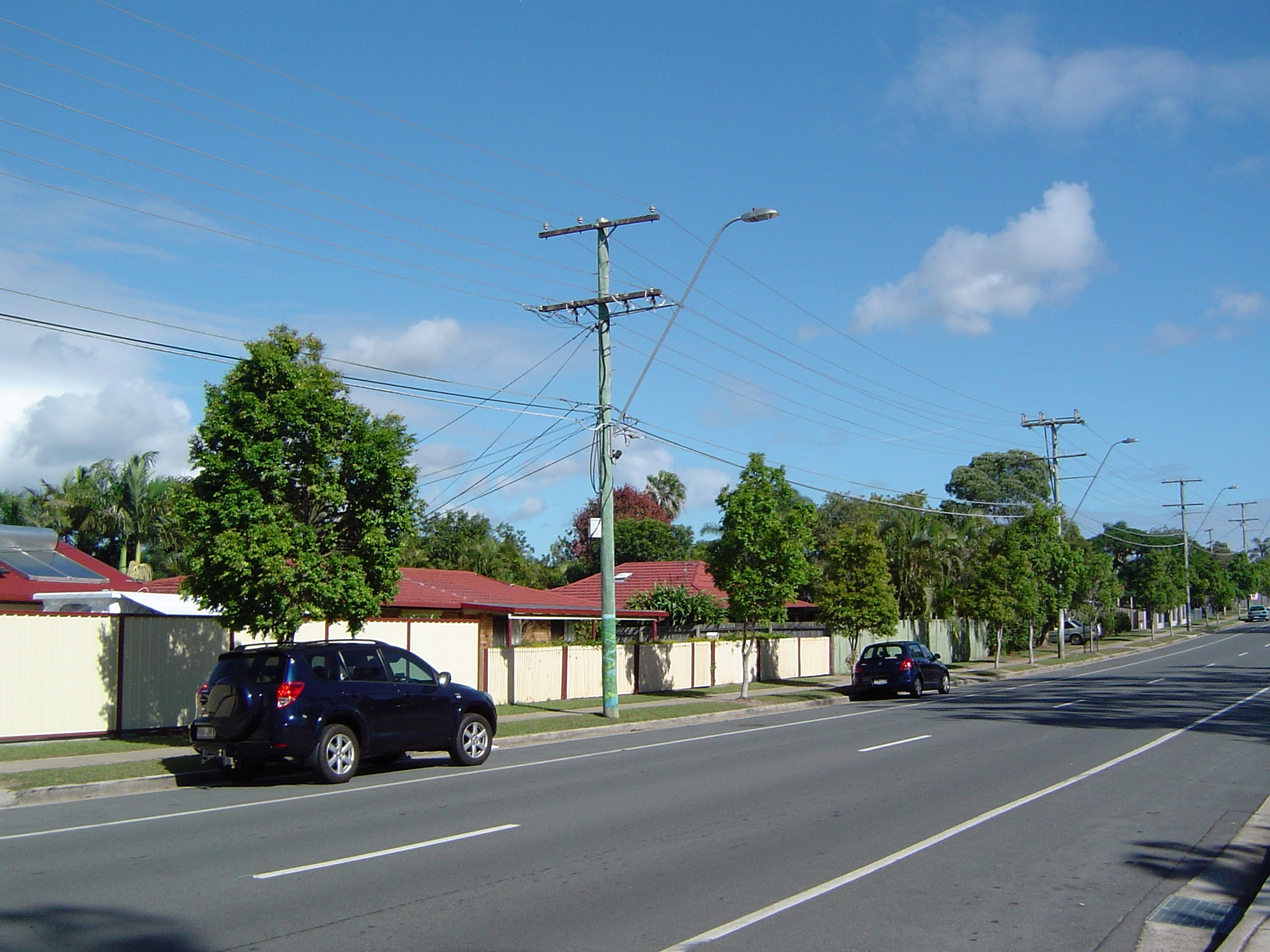 Photo of houses and Augusta Street in Crestmead, City of Logan, Queensland, Australia.